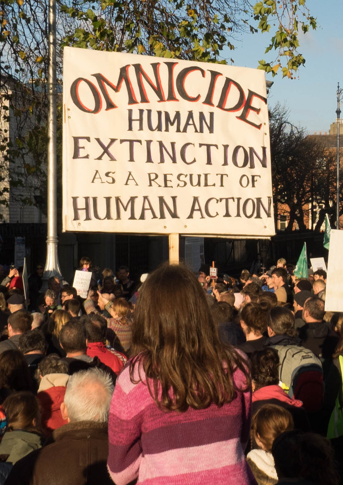 Placard against human extinction, at Extinction Rebellion. "Omnicide: human extinction as a result of human action".